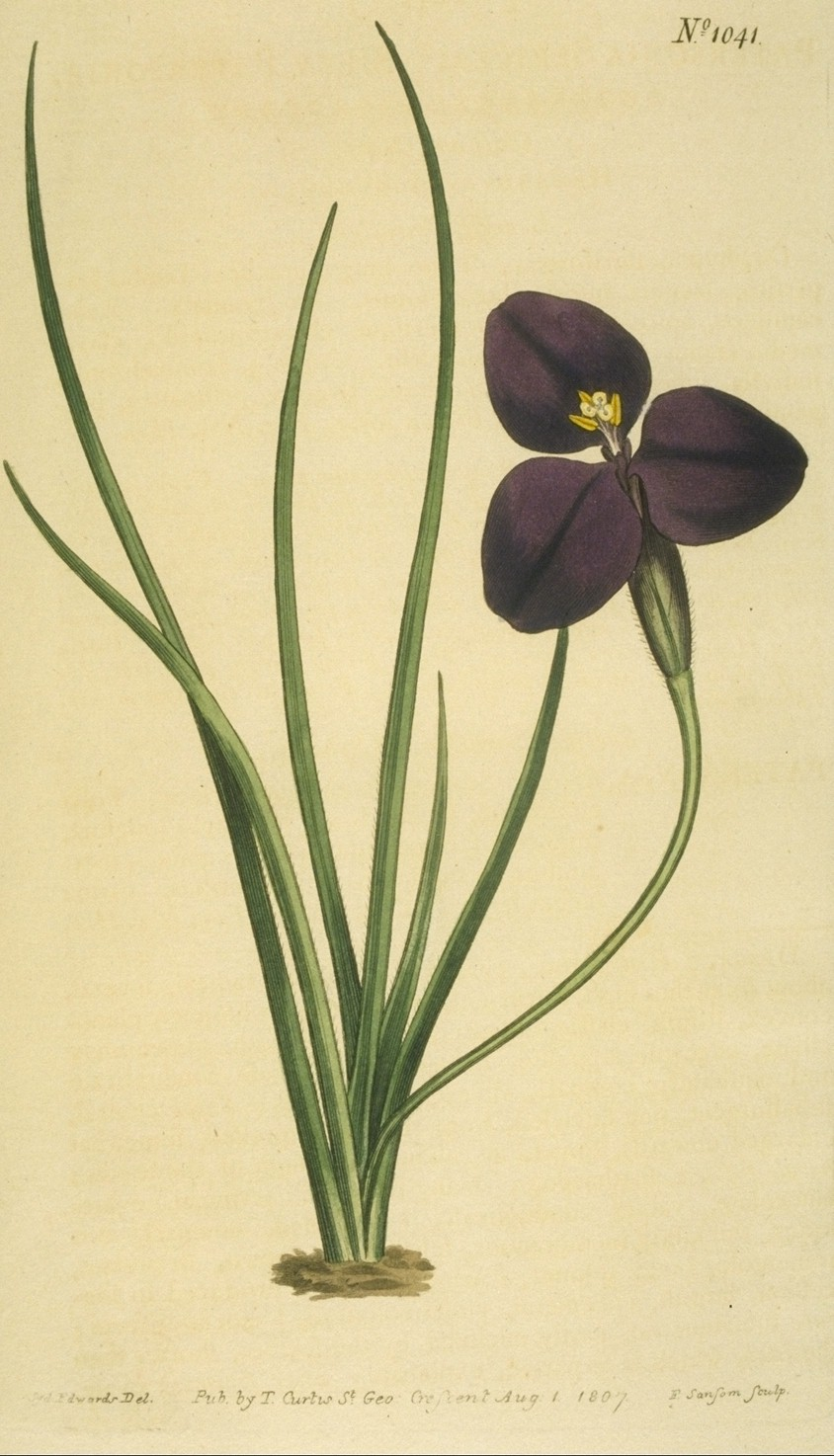 Plate No. 1041, The Botanical Magazine: Silky Patersonia